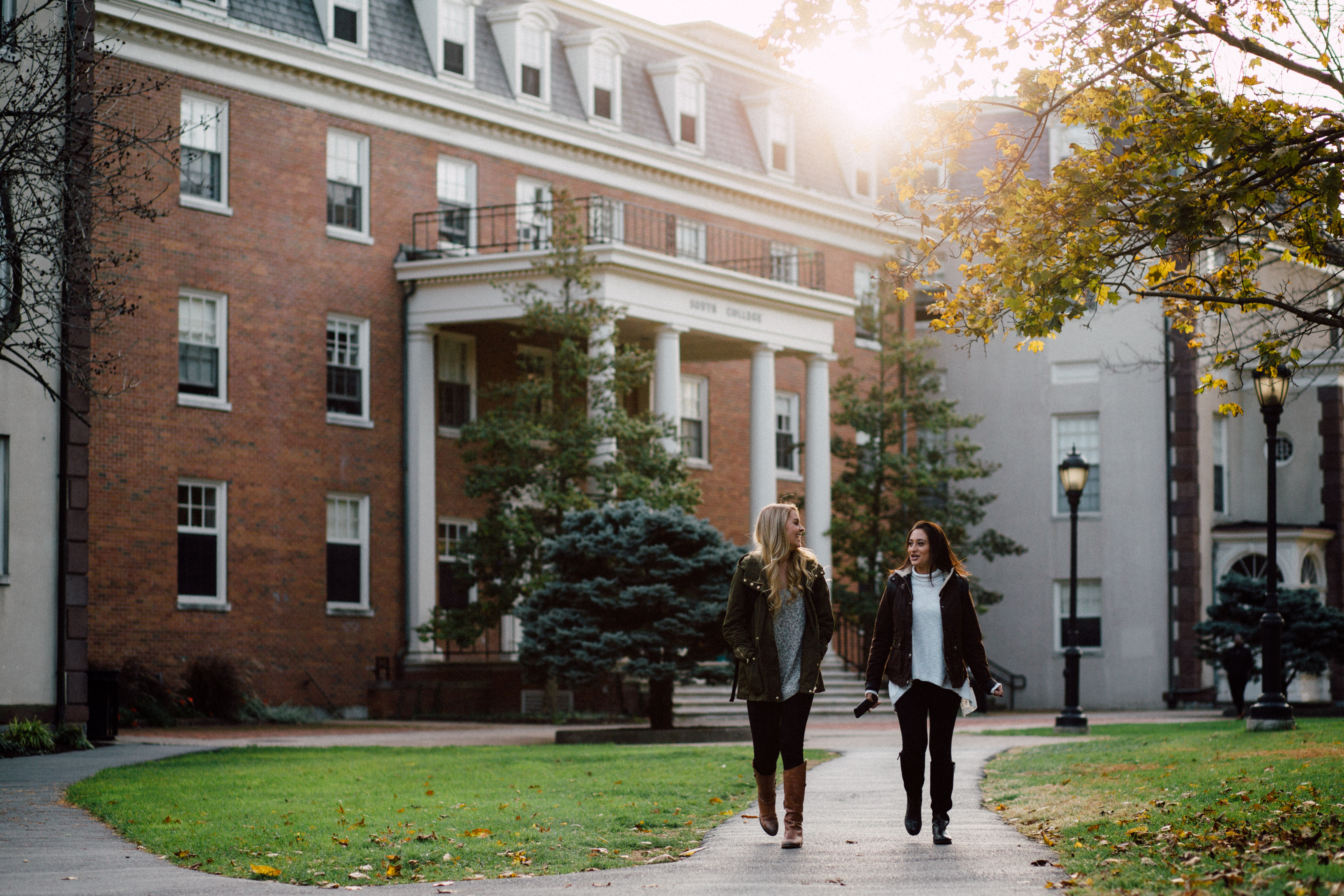 Students in front of South College, Lafayette College's oldest building.